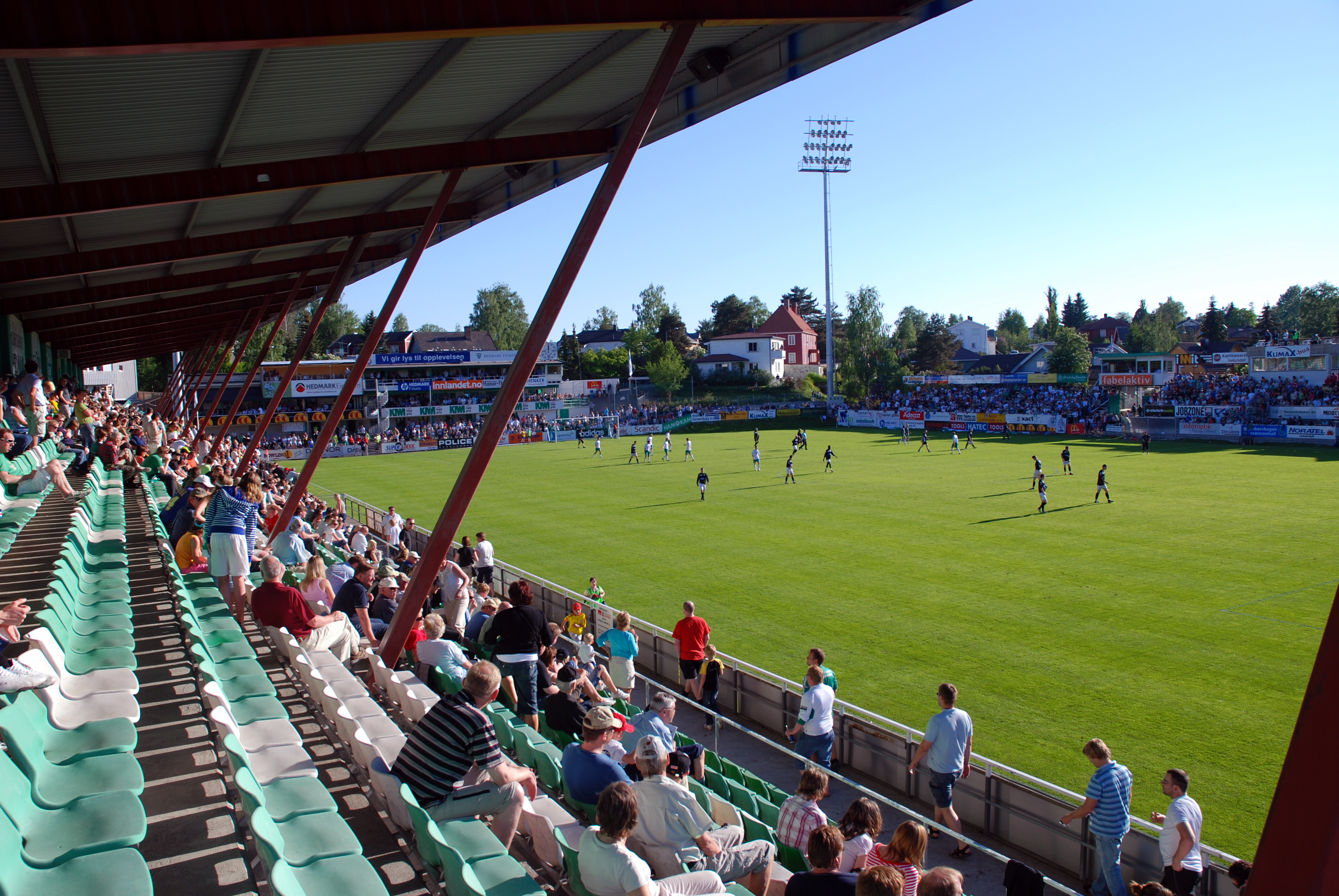 Briskeby gressbane, in Hamar, Hedmark, Norway.